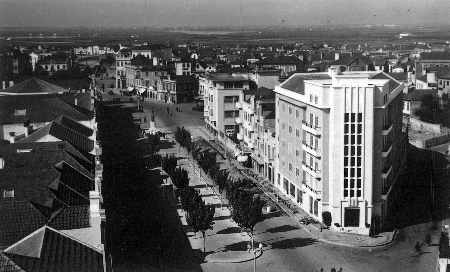 View of Companhia de Seguros Ultramarina (Dr. Lourenço Peixinho Ave., Aveiro, Portugal), circa 1952